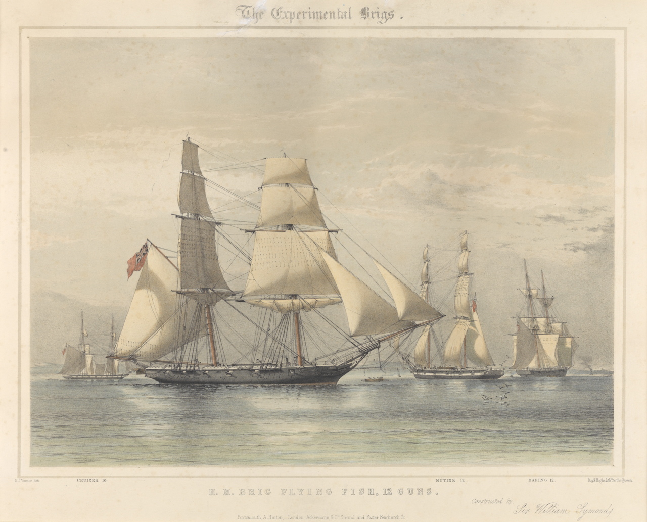 The Experimental Brig squadron of 1844: 'Flying Fish', 12 guns Stored in mount with PAH0924, of which it appears to be a duplicate. See that item for a full description. Hand-coloured. The Experimental Brigs. H.M. Brig Flying Fish, 12 guns. Constructed by Sir William Symonds. (Shows H.M.S. Cruizer, Mutine and Daring)